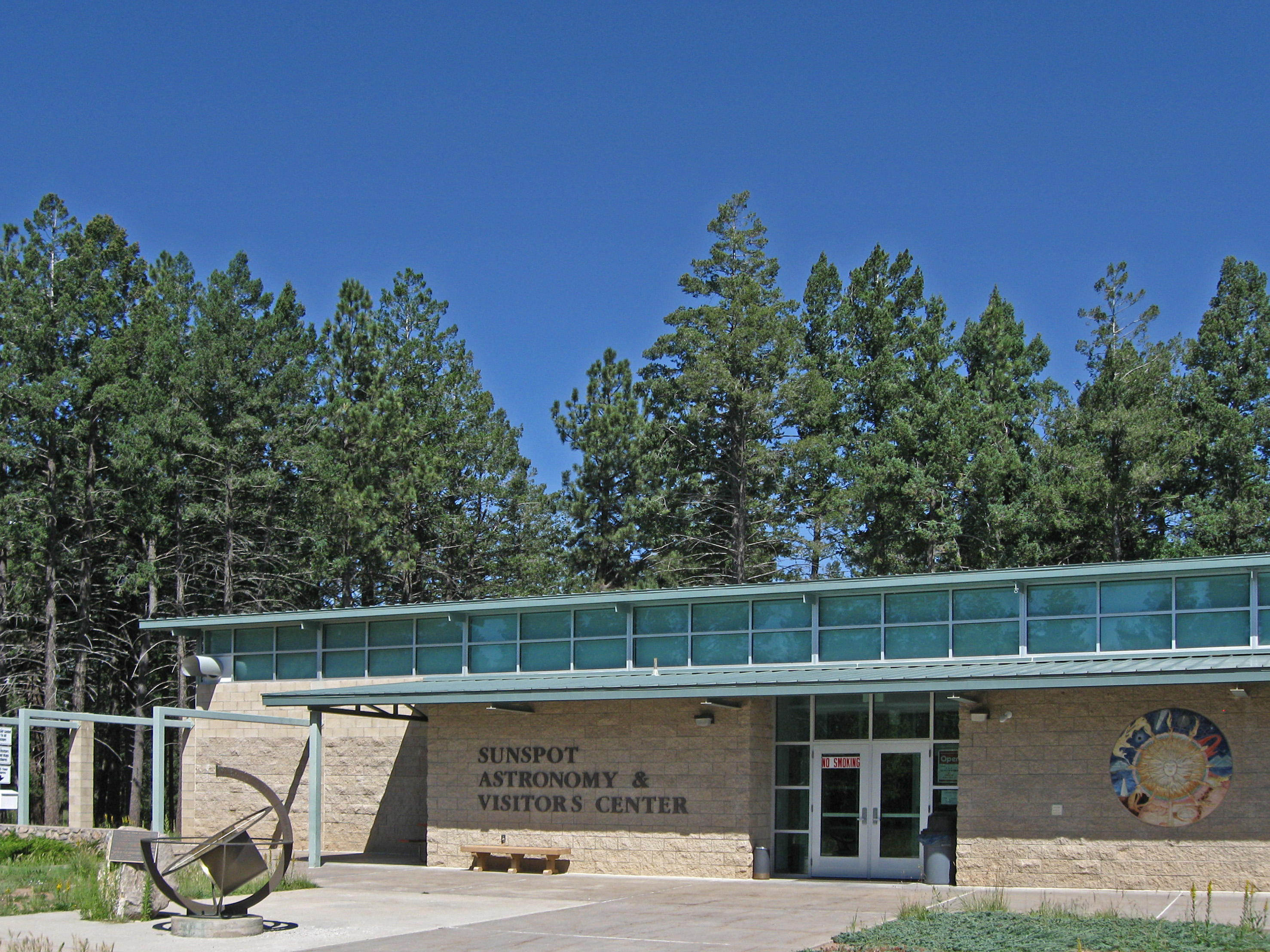 Sunspot Visitor Center and Museum, a joint project between the National Solar Observatory, the Apache Point Observatory, and the United States Forest Service, located in Sunspot, New Mexico. The object in the left foreground is an armillary sphere and sundial